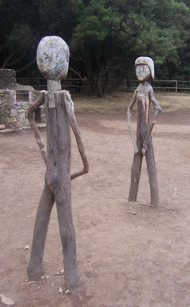 View of Gara y Jonay, near Laguna Grande recreational area in Parque nacional de Garajonay in La Gomera, Spain